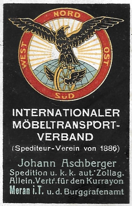 Poster stamp of the furniture transport company Aschberger in Meran, South Tyrol, from ariund 1910-20